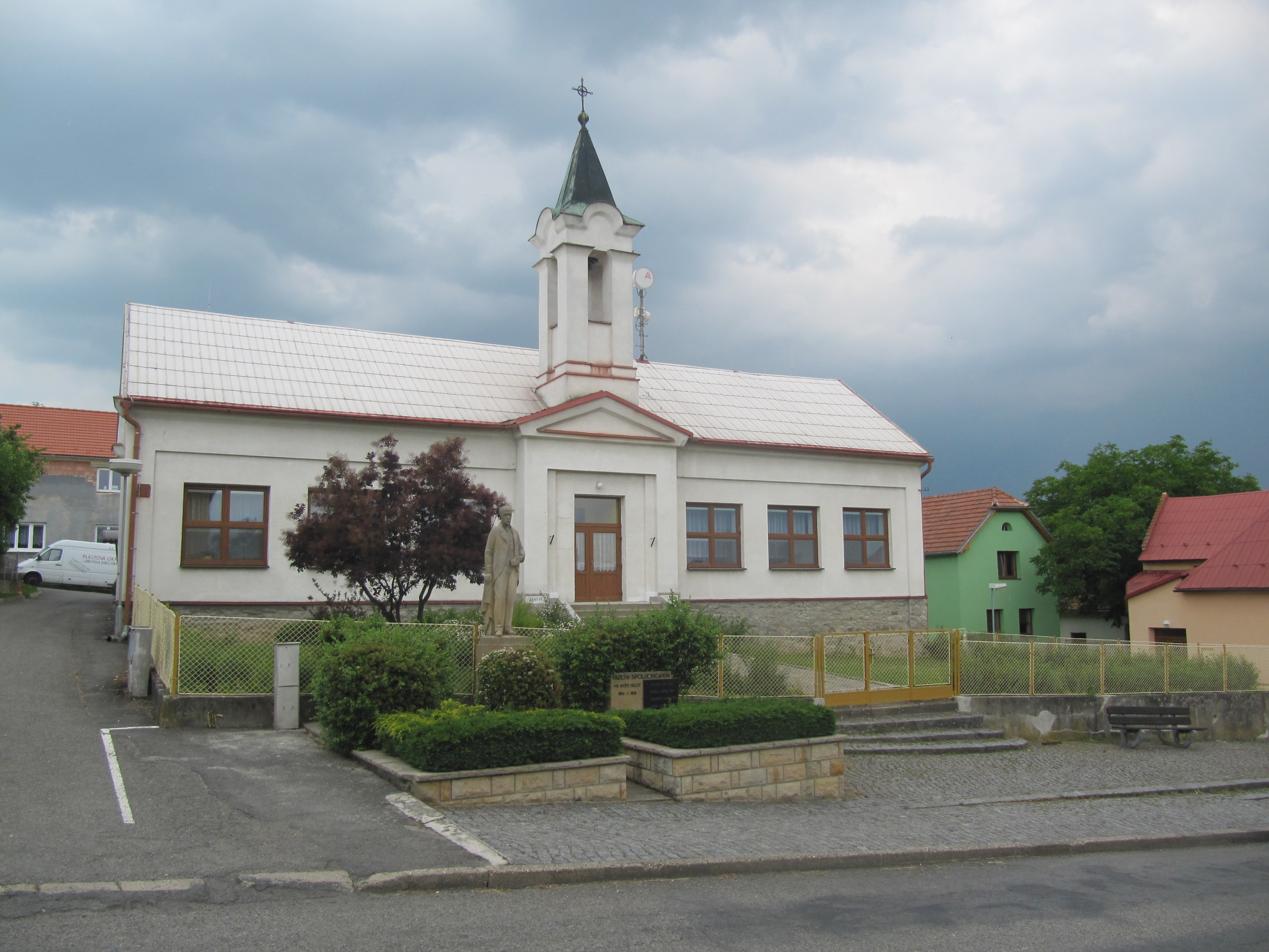 Březová in Zlín District, Czech Republic. Former school and statue of T. G. Masaryk. This photograph was taken within the scope of the third year of the 'Czech Municipalities Photographs' grant.